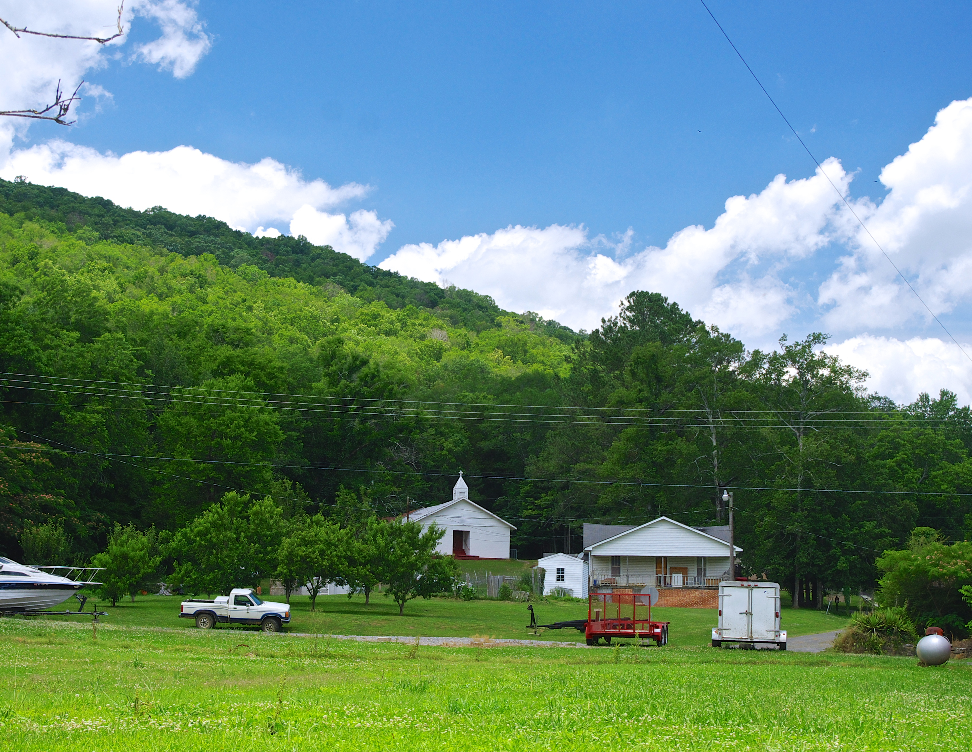 Buildings in Trenton, Alabama, United States, viewed looking north from County Road 106.